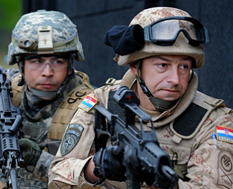 Croatian and Minnesota National Guard Soldiers prepare to clear a room during an Operational Mentoring and Liaison Team training exercise at the Joint Multinational Readiness Center. The U.S. and multinational troops will deploy together to Afghanistan as part of the NATO International Security Assistance Force.